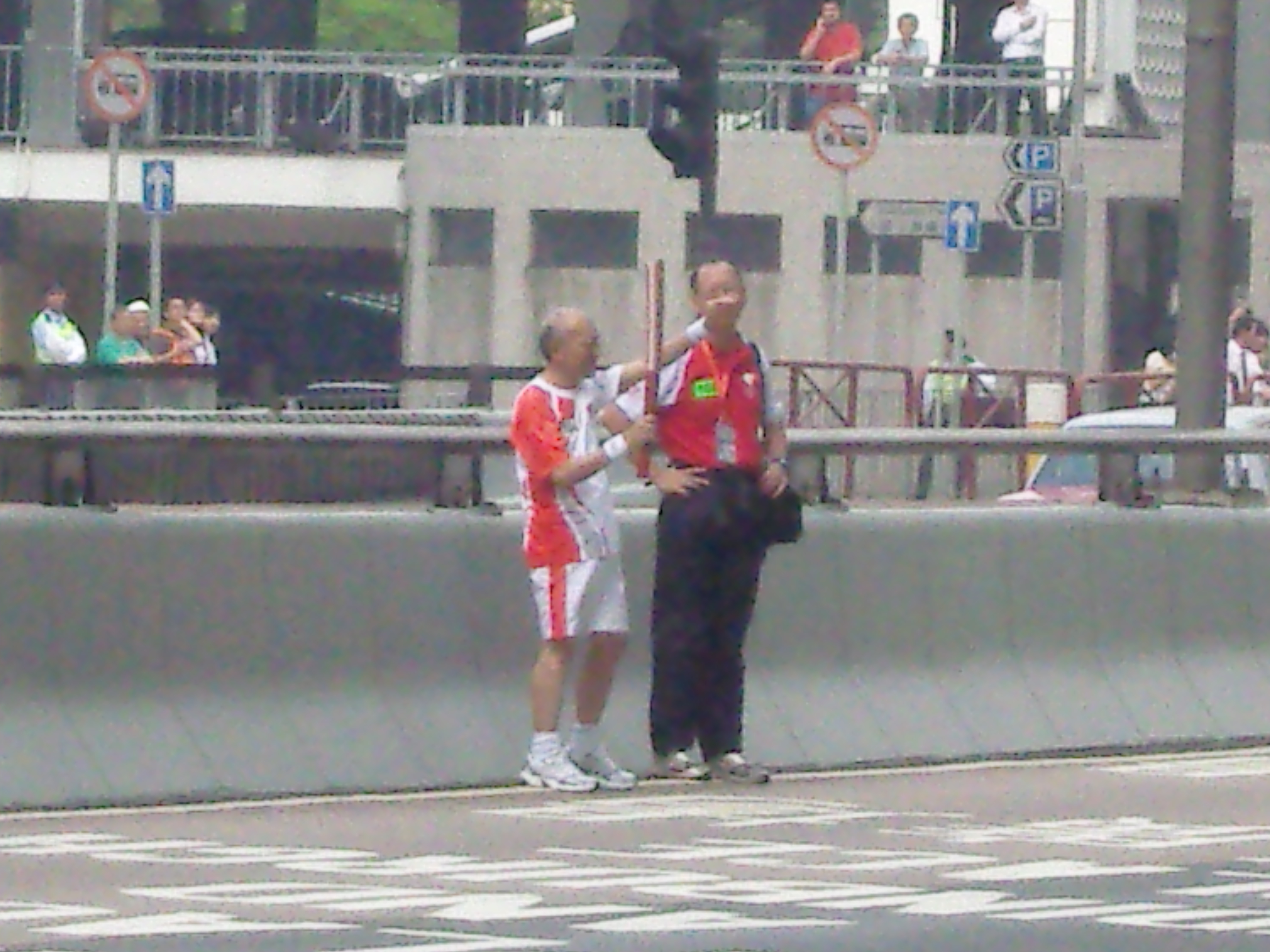 2008 Summer Olympics Torch in Central, Hong Kong.